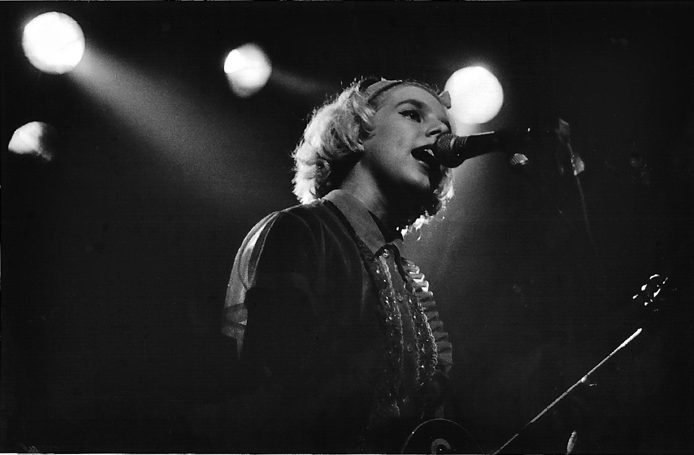 Tanya Donelly of Throwing Muses touring the Real Ramona album. The Leadmill, Sheffield March 1991 My review of Kristin Hersh's memoir, Paradoxical Undressing, has now been published online in the Journal of Mental Health and is due out in print soon. Read it on the neate photos blog here. More neate photos